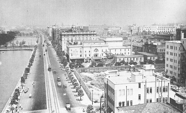 View of Marunouchi in 1930s